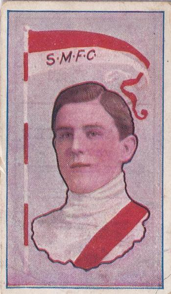 Cigarette card of Fred Carpenter from the 1912 Sniders & Abrahams series.